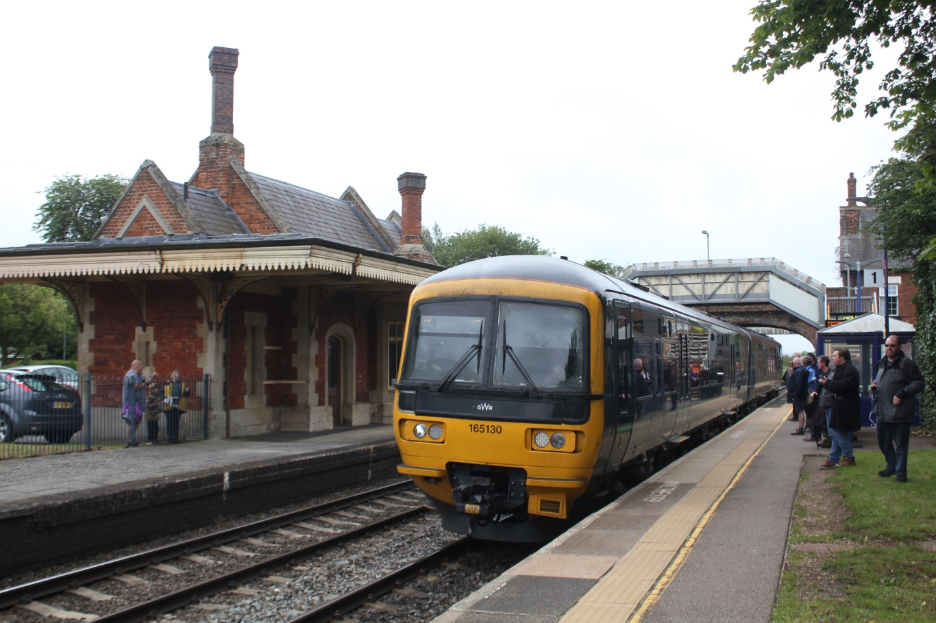 'Turbo' 165130 arrives at Culham while working a Great Western Railway service from Didcot Parkway to Oxford.